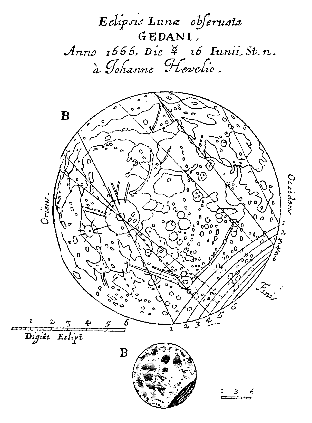 Figure B, Number 21 from Philosophical Transactions, Volume 1